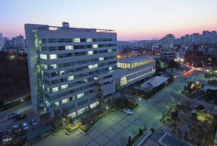 CAU Faculty Office Building / Gymnasium